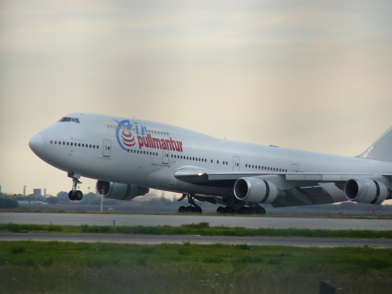 b747